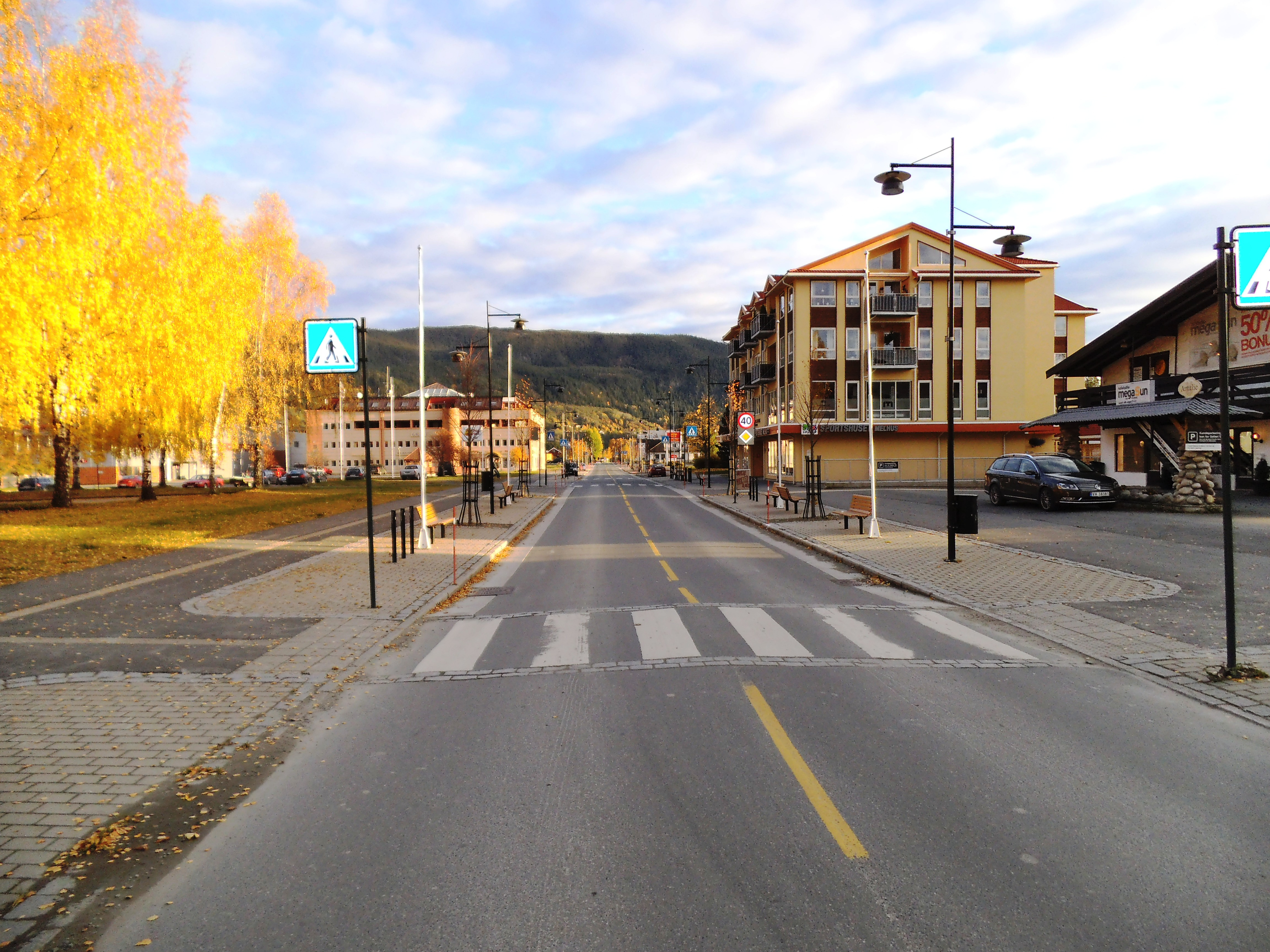 Main street in Melhus